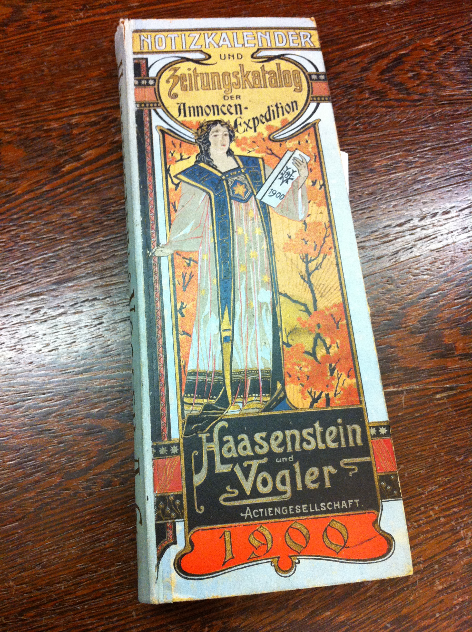 Notizkalender und Zeitungskatalog der Annoncen-Expedition Haasenstein und Vogler 1900